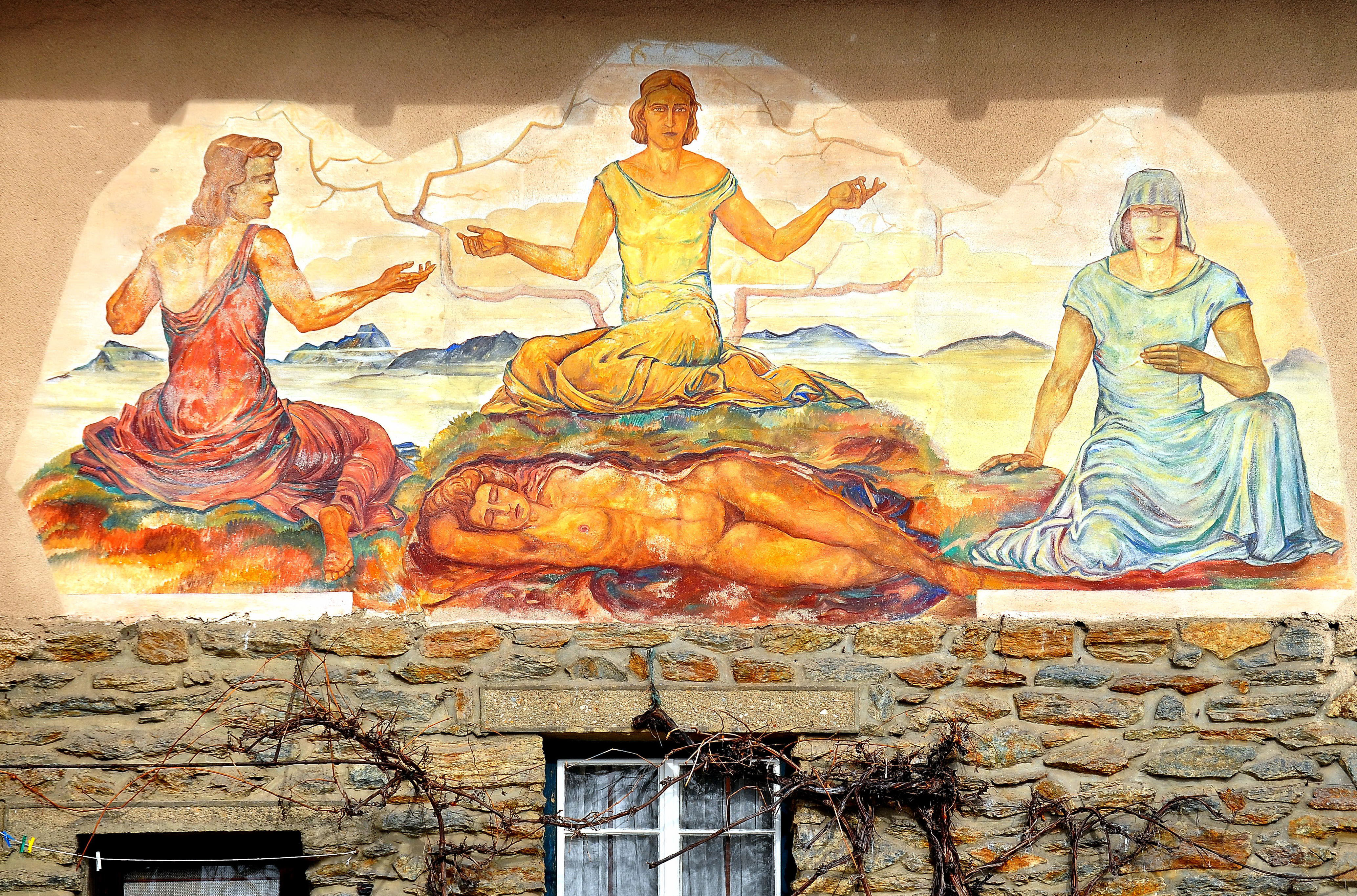 Fresco-painting by the artist Otto Bestereimer on the south wall of the private villa (owner Ute Krapf) on the Konradweg #11 in the 12th district "Sankt Martin" of the Carinthian capital Klagenfurt, Carinthia, Austria